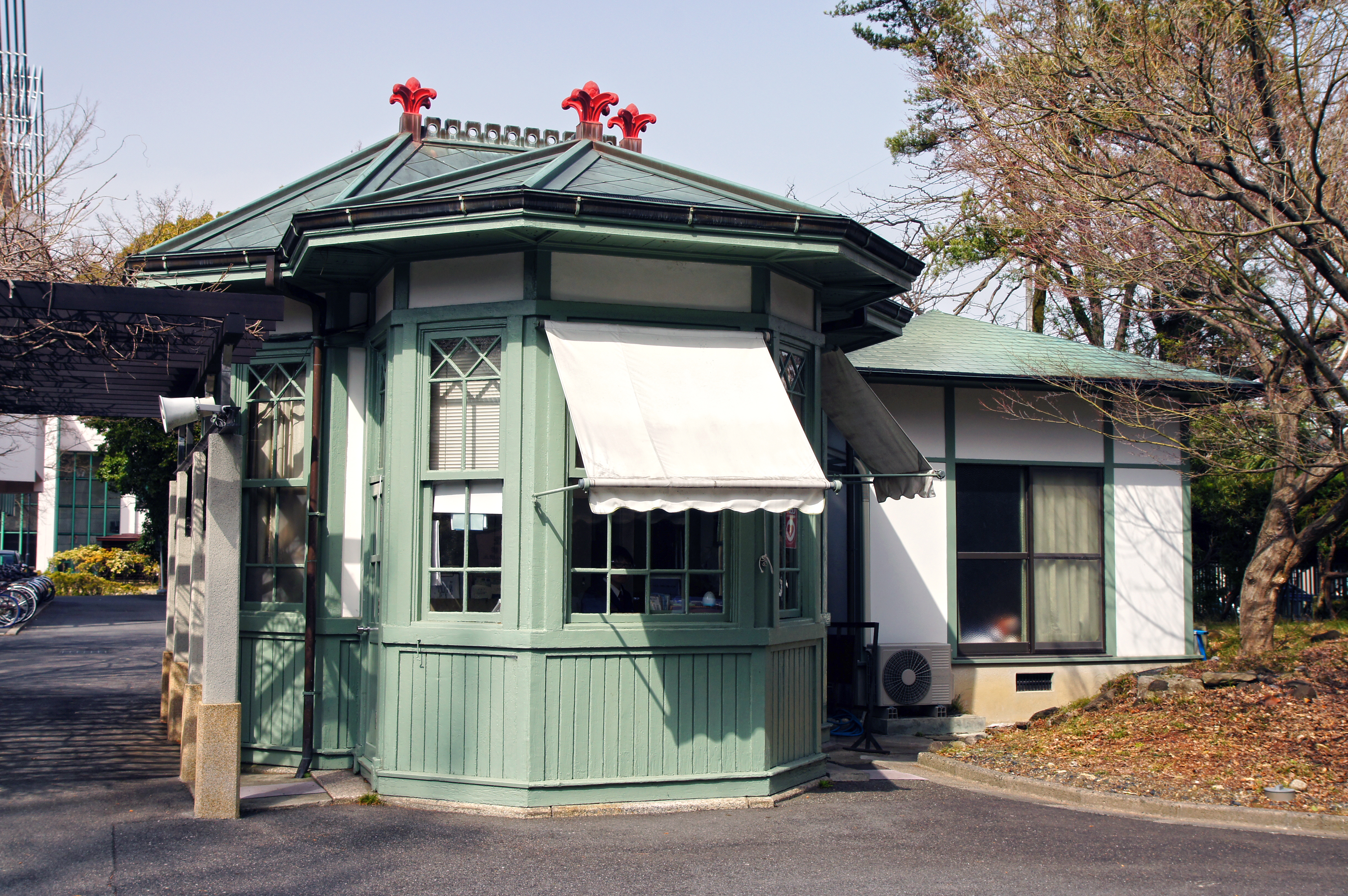 Nara Women's University in Nara, Nara prefecture, Japan.